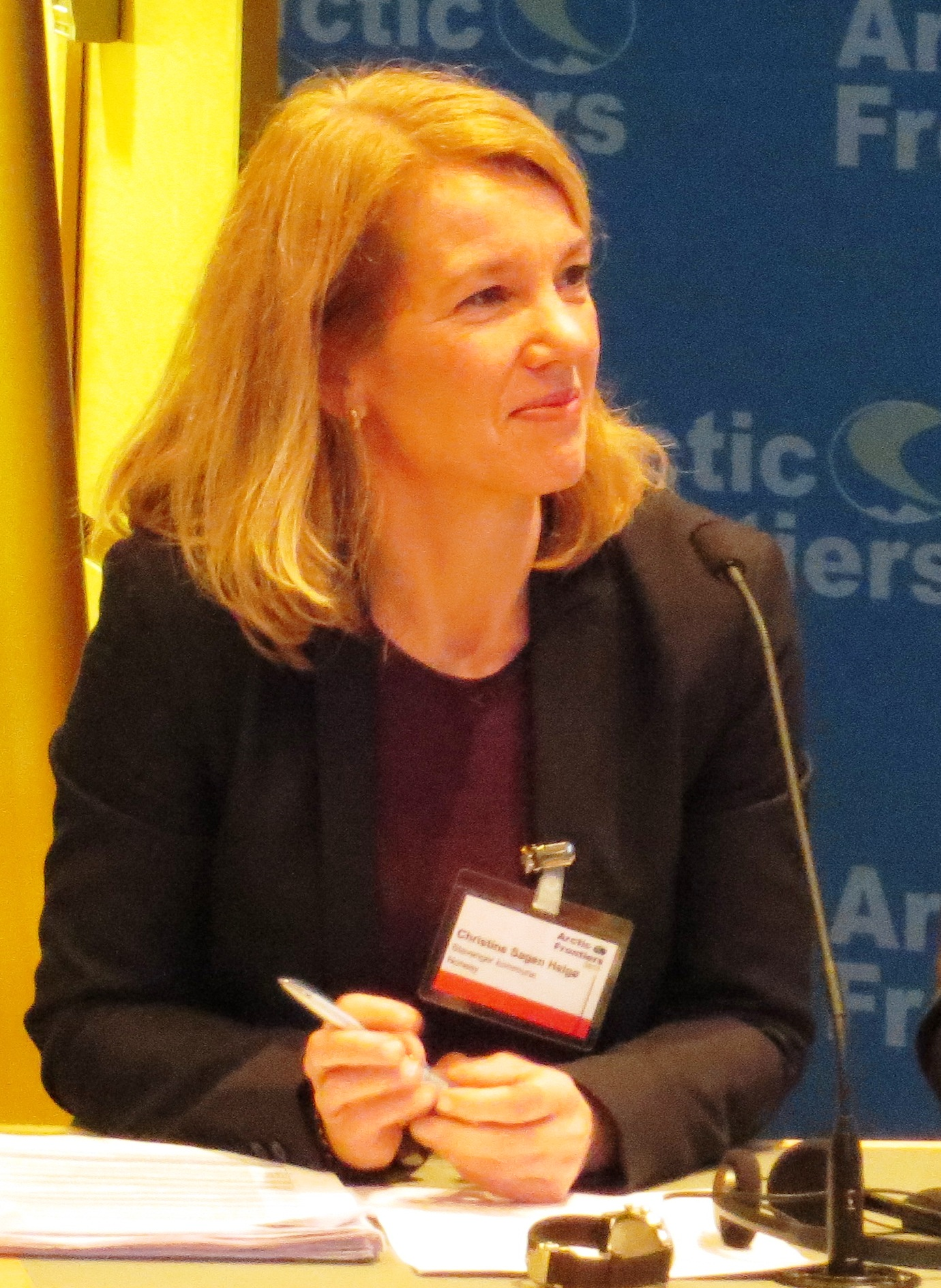 Christine Sagen Helgø, mayor of Stavanger city (Norway)